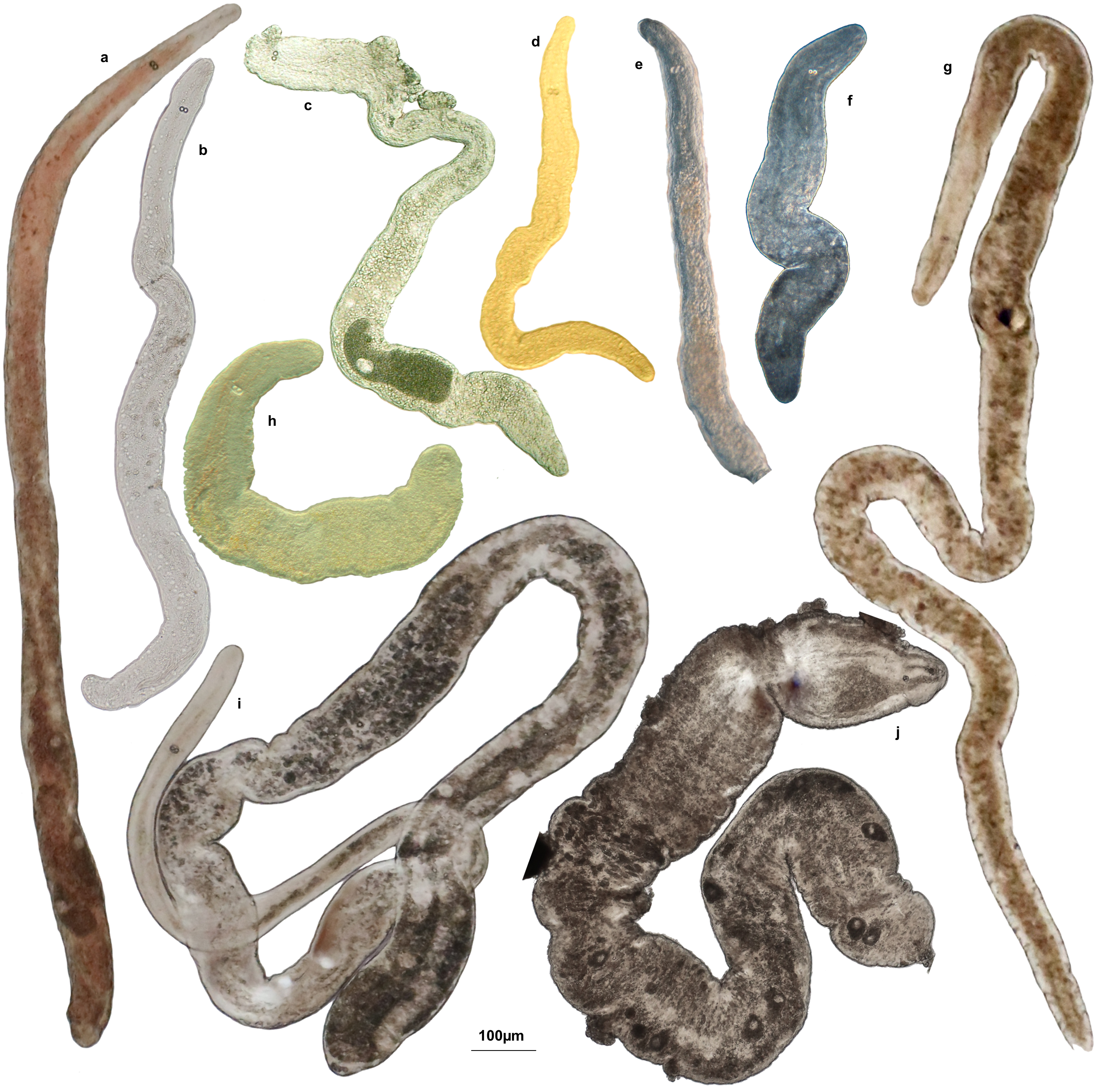 Morphological variation within the genera Nemertinoides and Sterreria. Light microscope photographs of live specimens in squeeze preparation a – Sterreria rubra from Southern Portugal, b – S. psammicola from Southern Portugal, c – S. martindalei n.sp. from Waimanolo, Hawaii, d – S. ylvae n.sp, from Waimanolo, Hawaii, e – S. variabilis n.sp. from New Caledonia, f – S. variabilis n.sp. from Bermuda, g – Nemertinoides elongatus from Southern Portugal, h) S. rubra from Helgoland, North Sea, i – N. glandulosum n.sp. from Southern Portugal, j – N. wolfgangi n.sp. from Croatia.